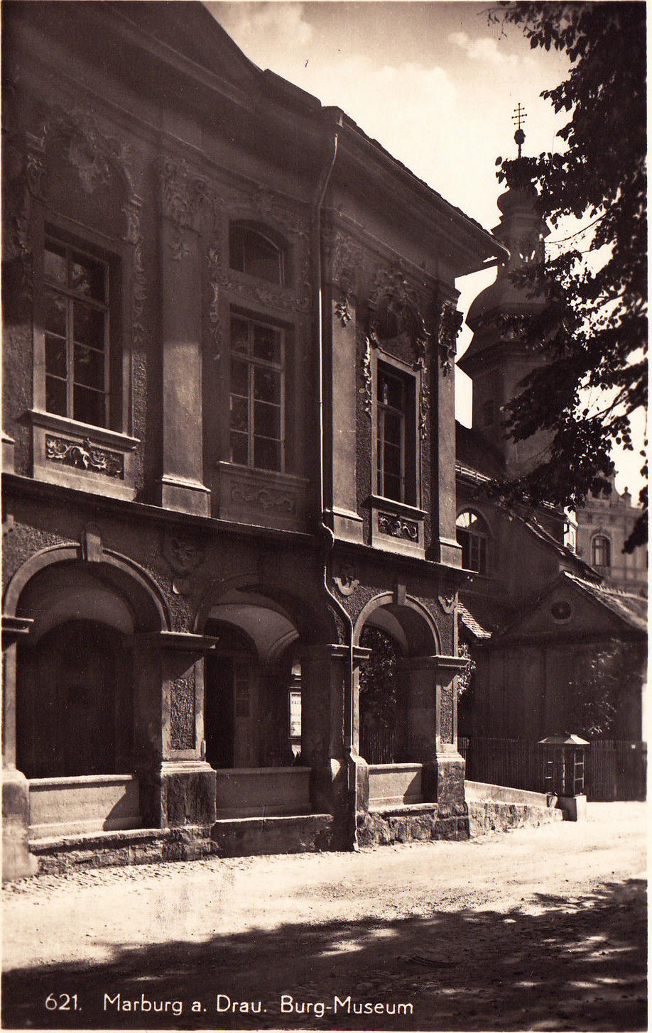 Postcard of Maribor Castle.